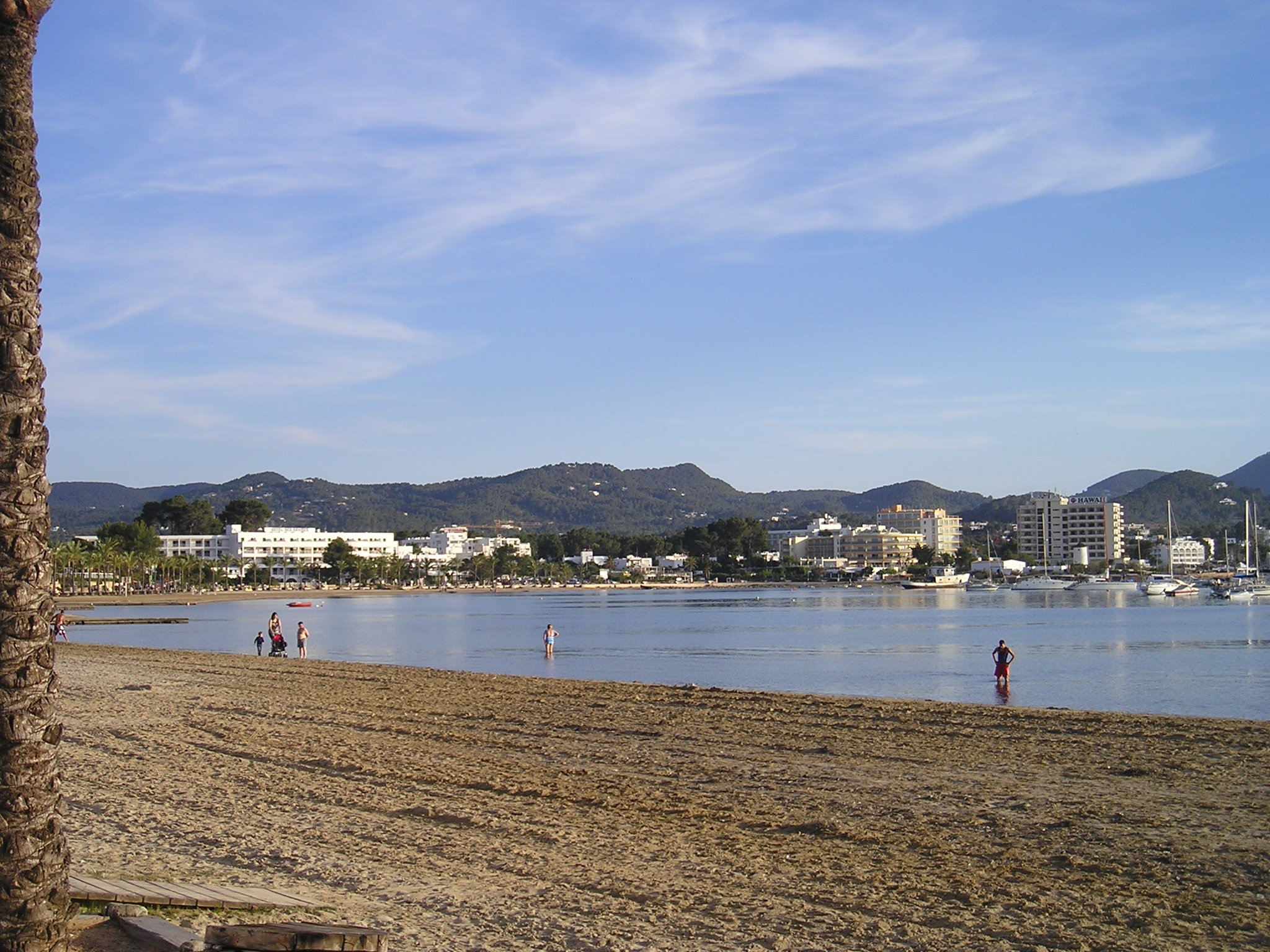 San Antonio Beach, IbizaUnknown bucht und strand von san antonio, ibizaUnknown playa de san antonio